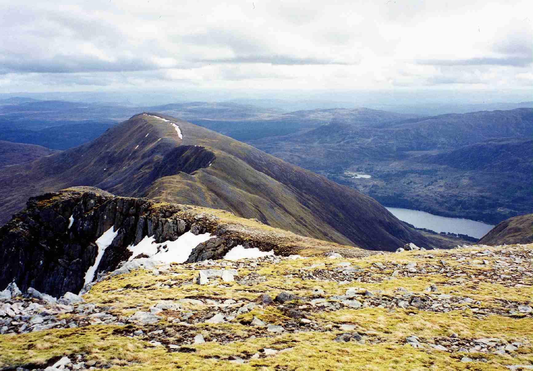 Personal photograph taken by Mick Knapton